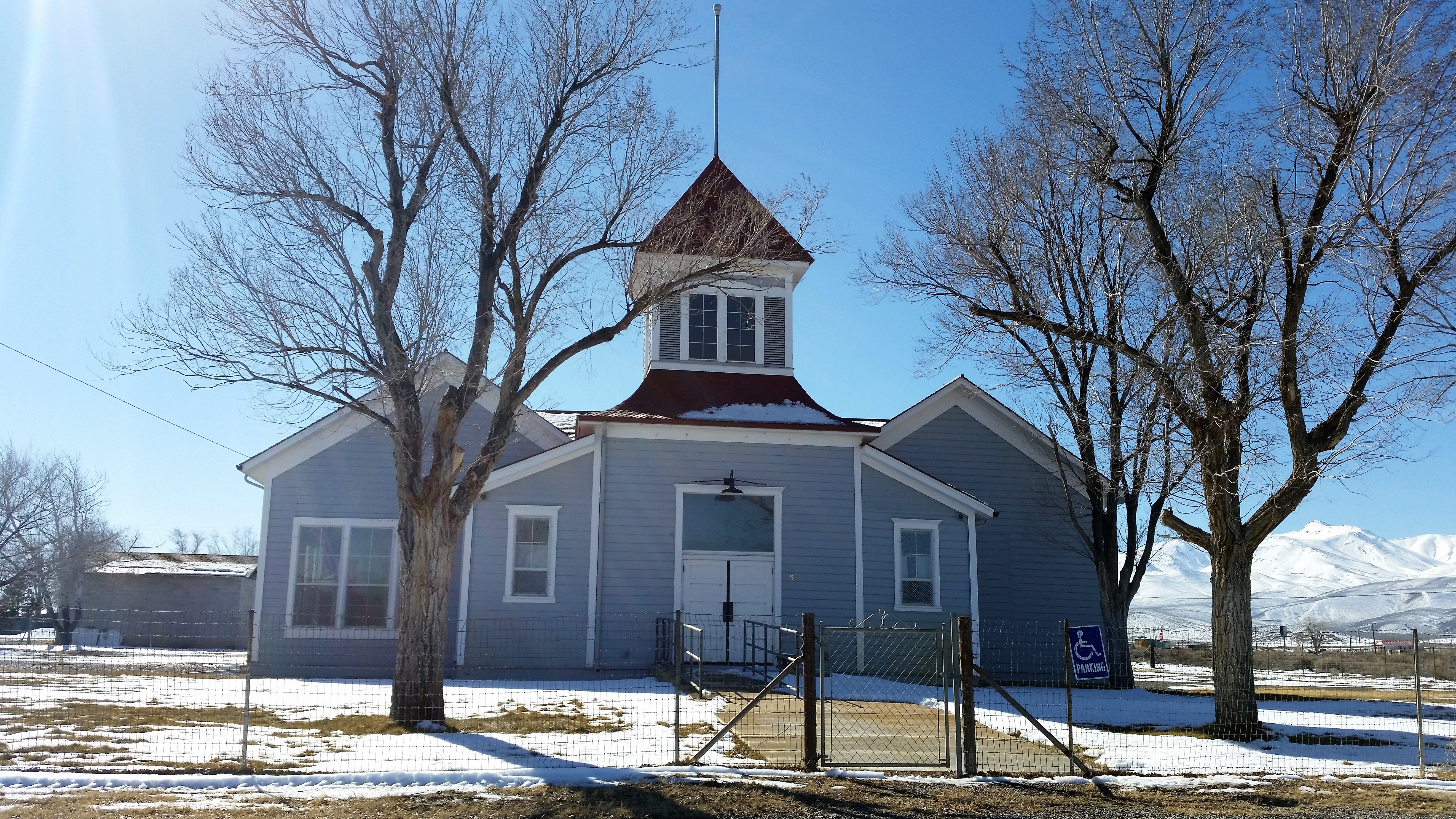 The Front Steps of the school as seen from 4th Street